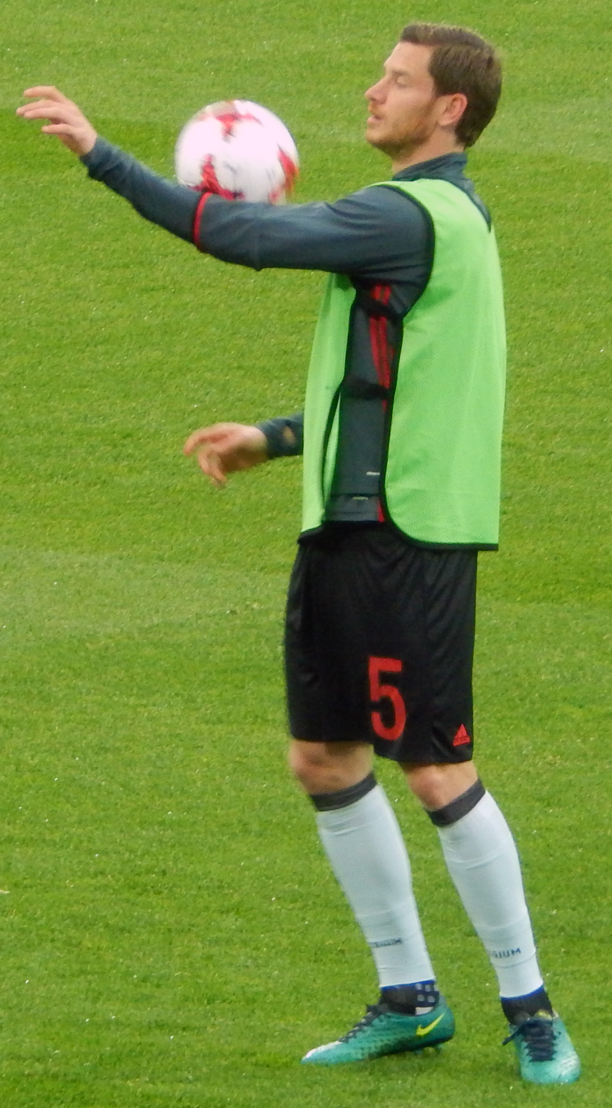 This photo was taken on March 28, 2017 during the exhibition game between Russia and Belgium. That game was held in Adler (City of Sochi) at the Fisht stadium.